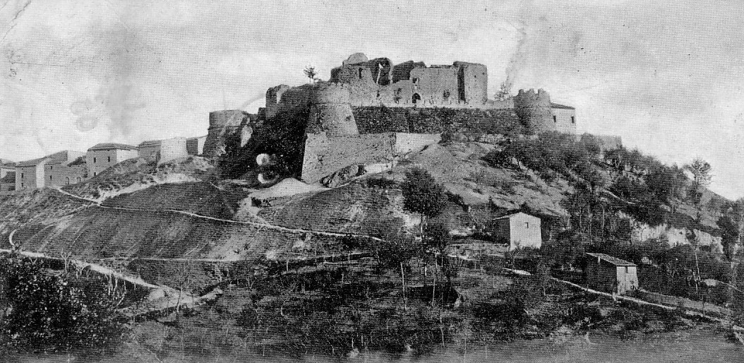 Castle of Alvito in the early 1900s